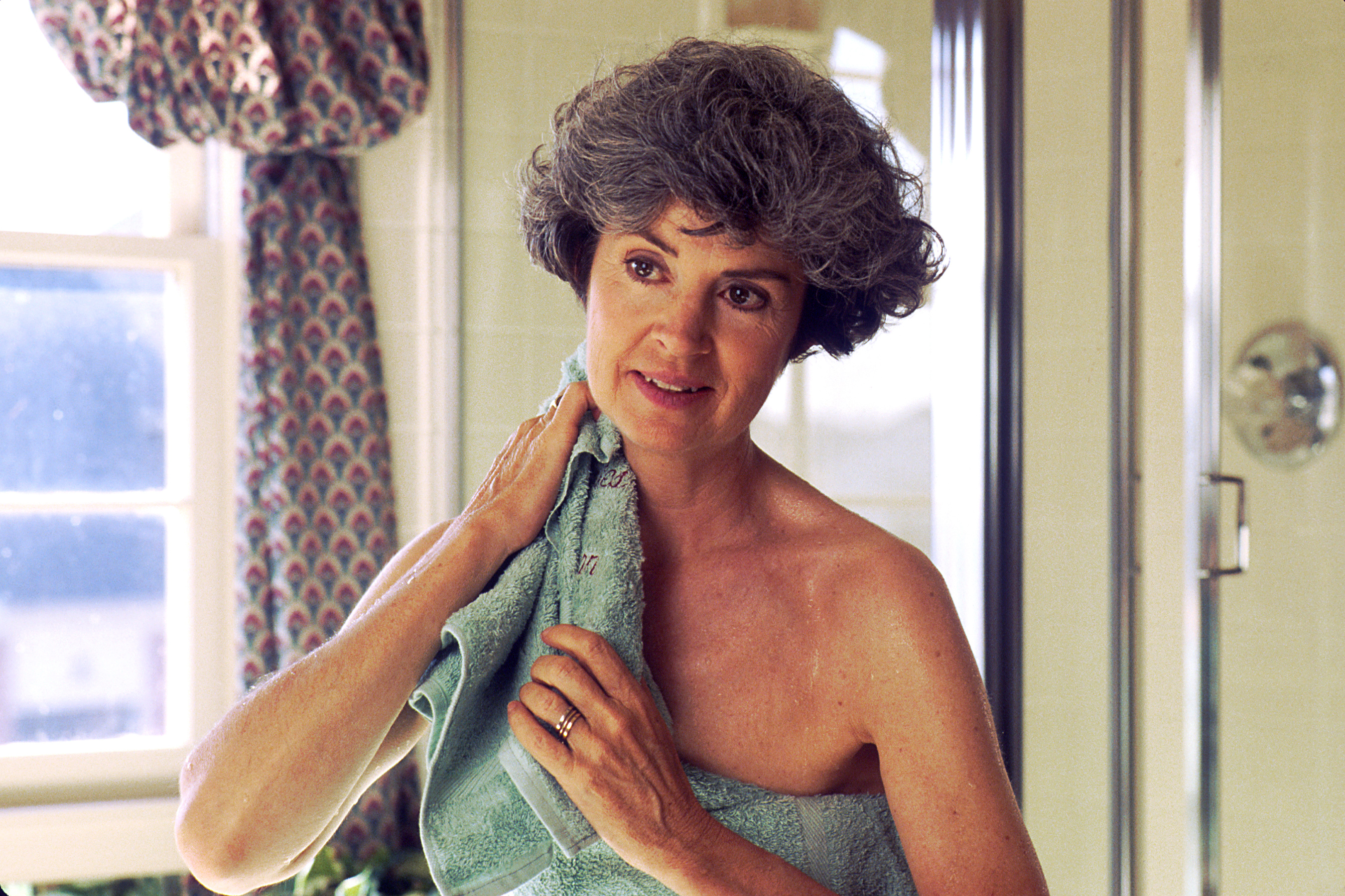 Title Woman Drying Off with a Towel Description An older Caucasian woman stands in a bathroom between a shower and a window, wrapped in a green towel, drying off. Topics/Categories People -- Adult Type Color, Photo Source National Cancer Institute